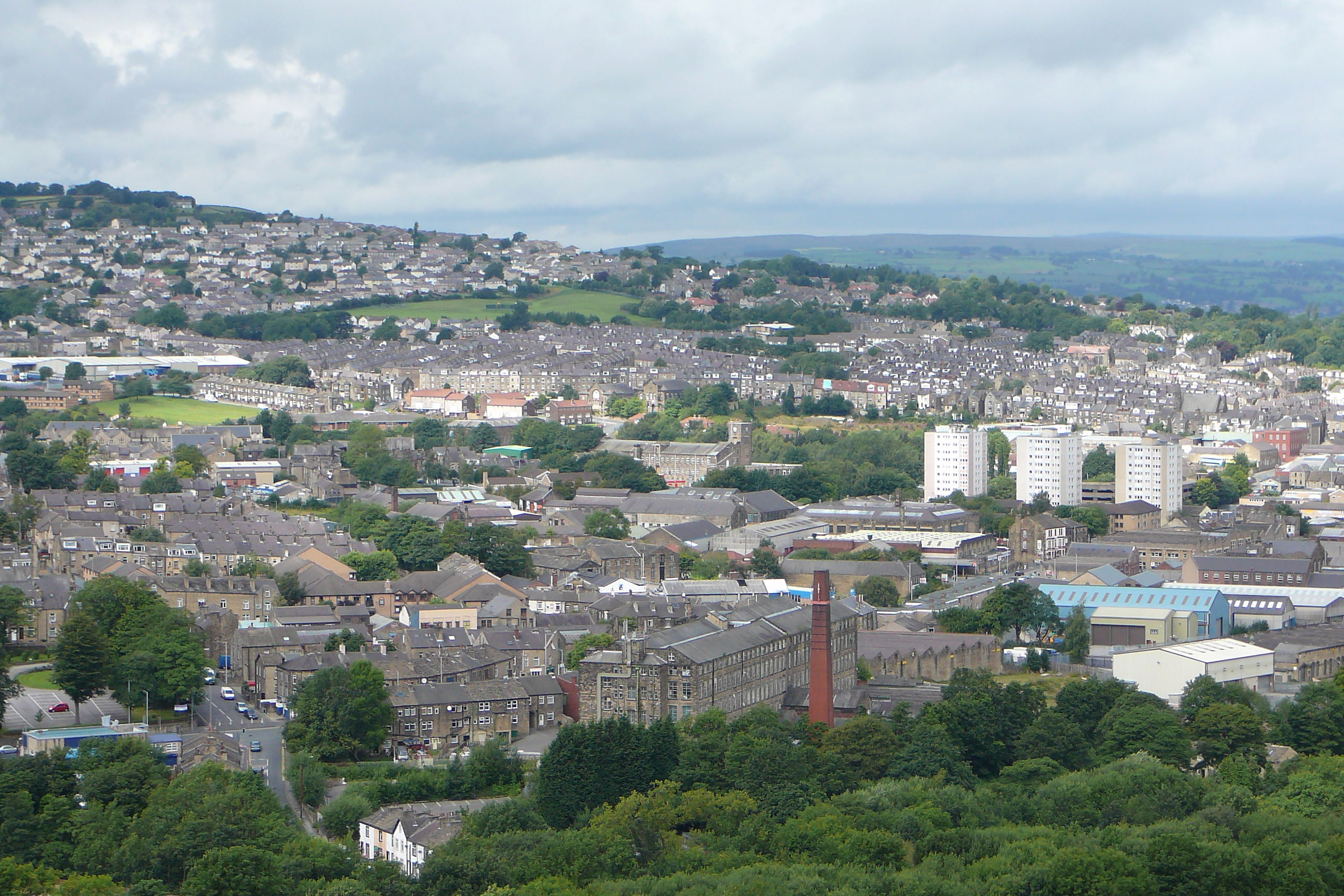 A view over Keighley, West Yorkshire. Taken on Saturday the 31st of July 2010.